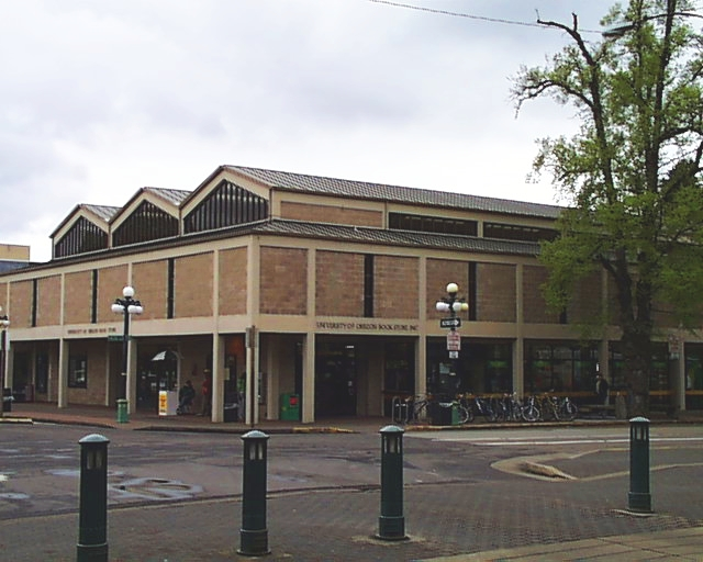 University of Oregon Bookstore, corner of 13th Ave. and Kincaid St. Eugene, Oregon